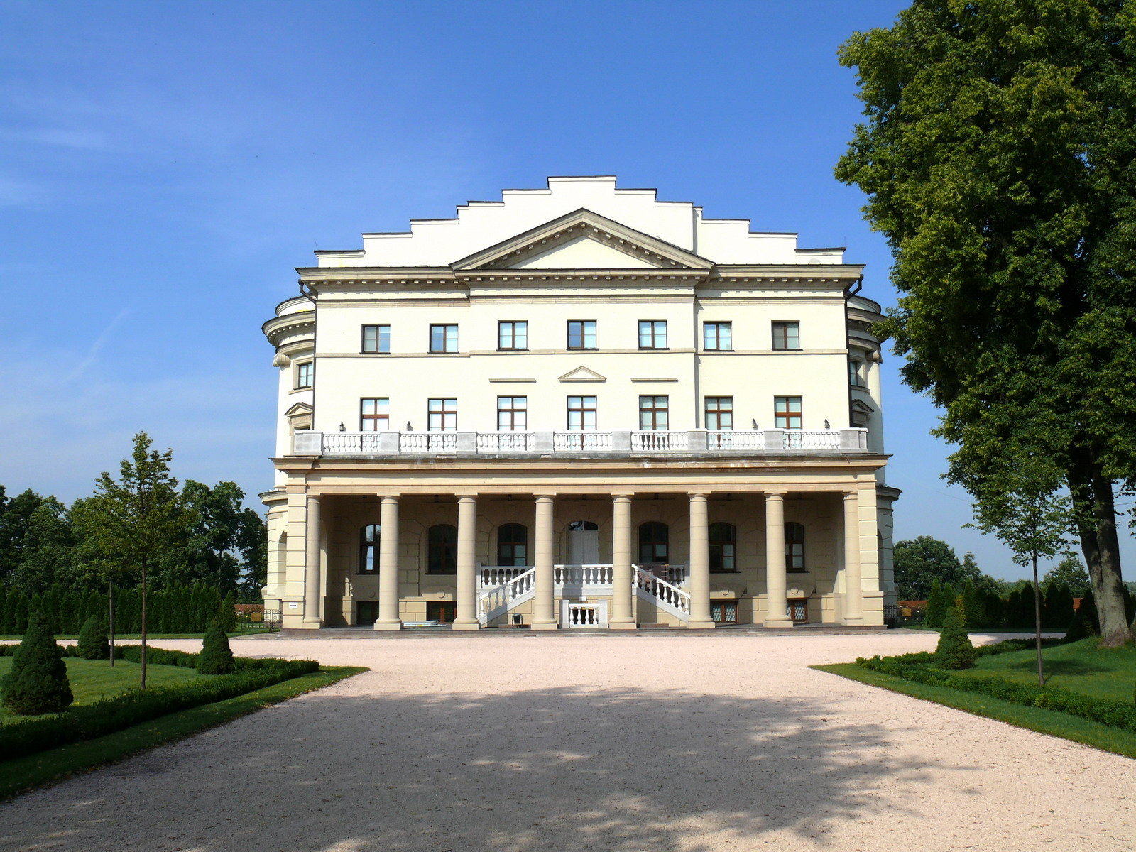 Hetman Rozumovskiy Palace